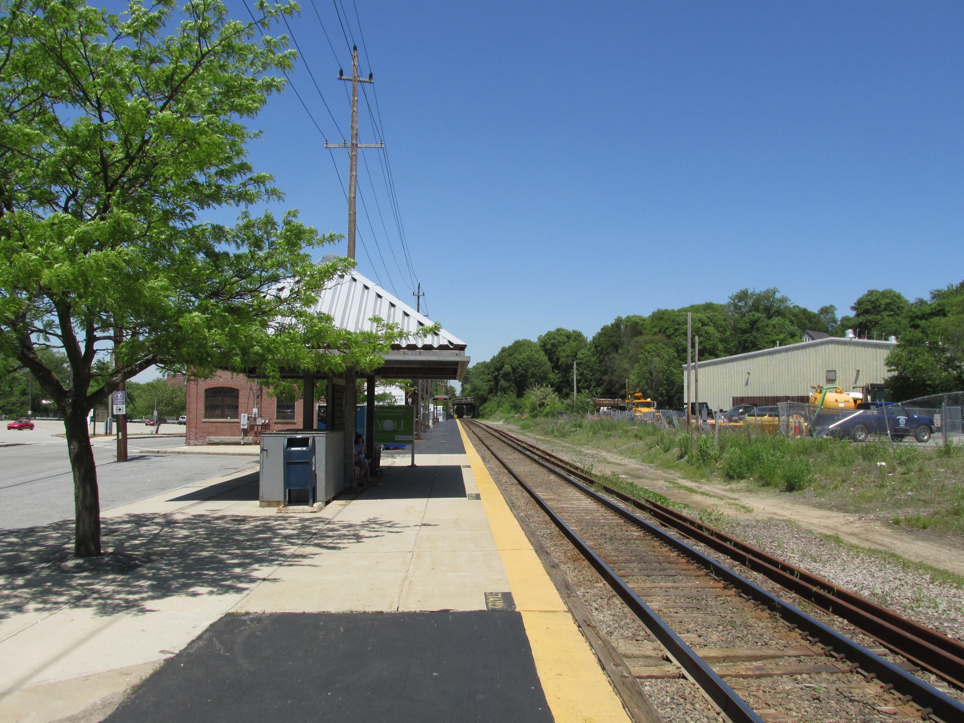 Andover MBTA Station, Andover Massachusetts - 2013